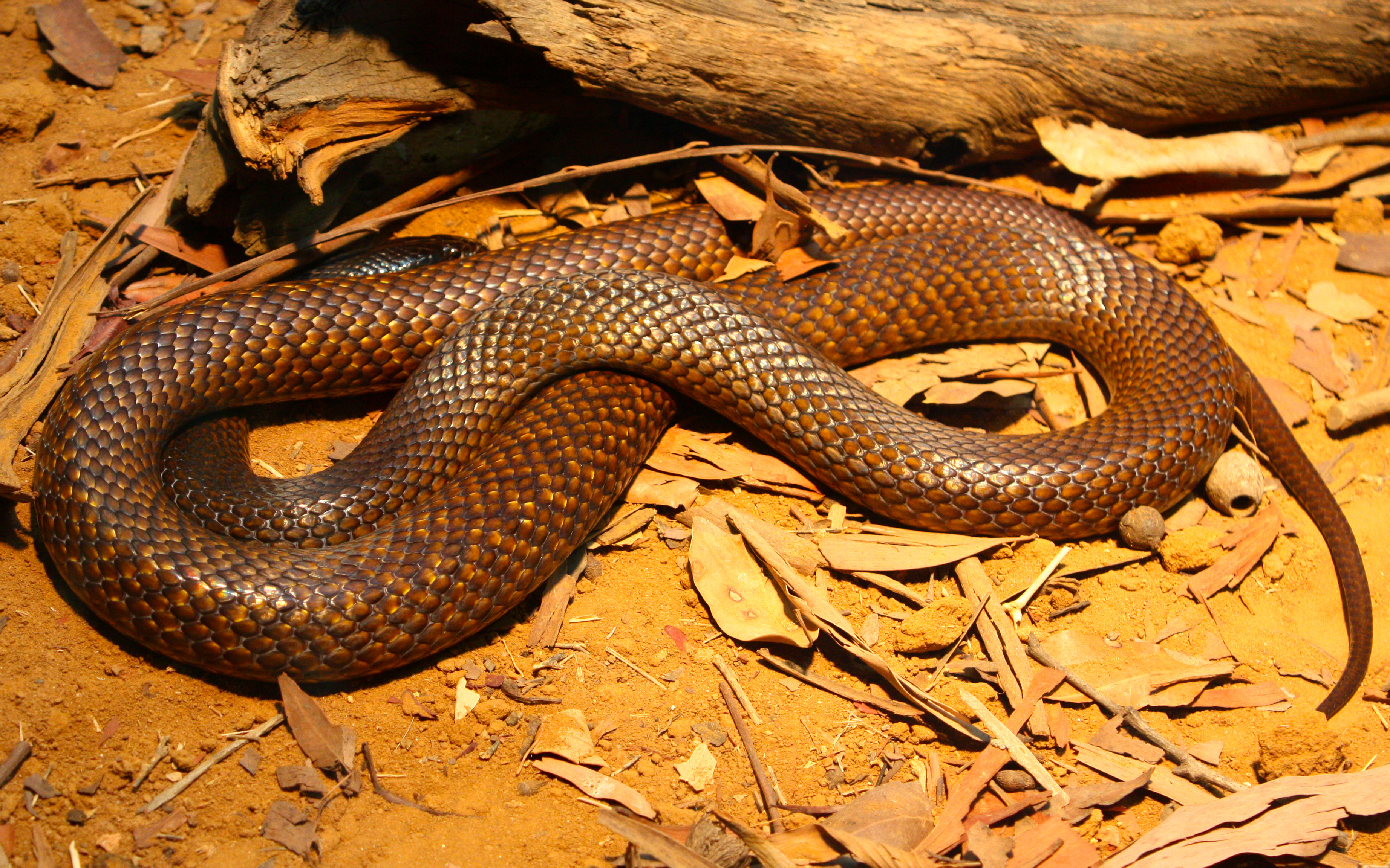 A Western Brown snake at the Australia Zoo.